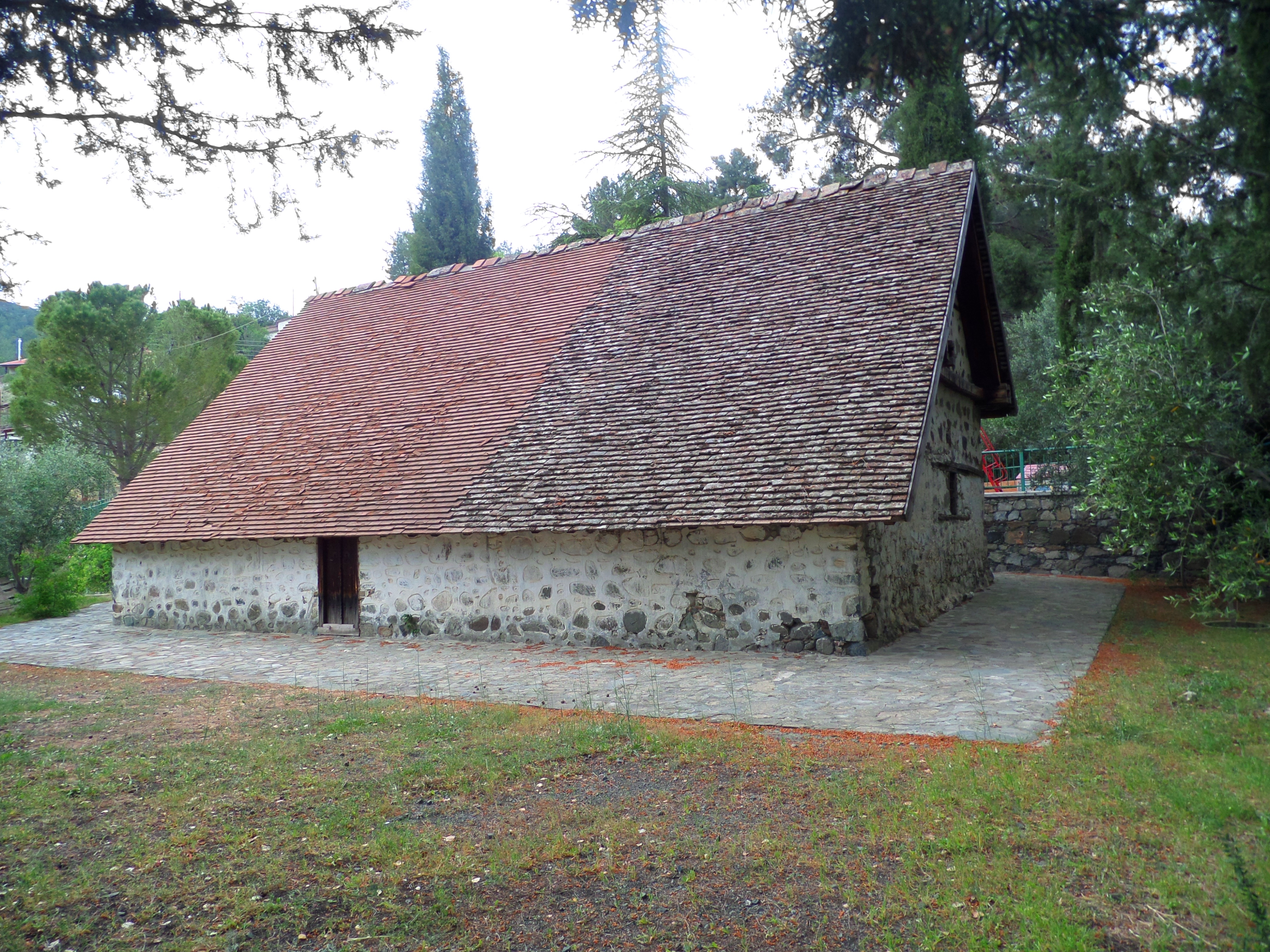 Michael (archangel) chapel at Treis Elies.